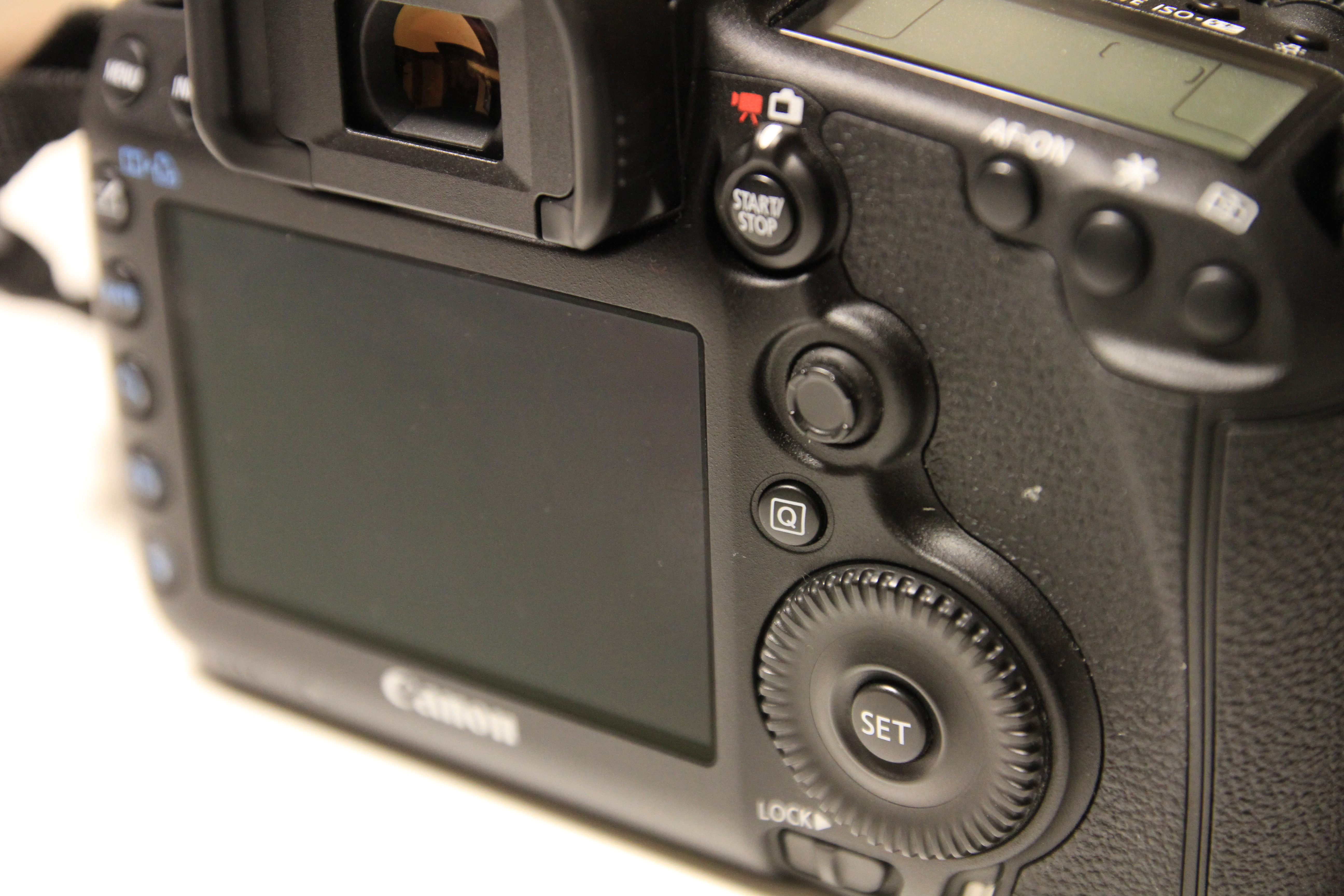 Canon EOS 5D Mark III, rear controls